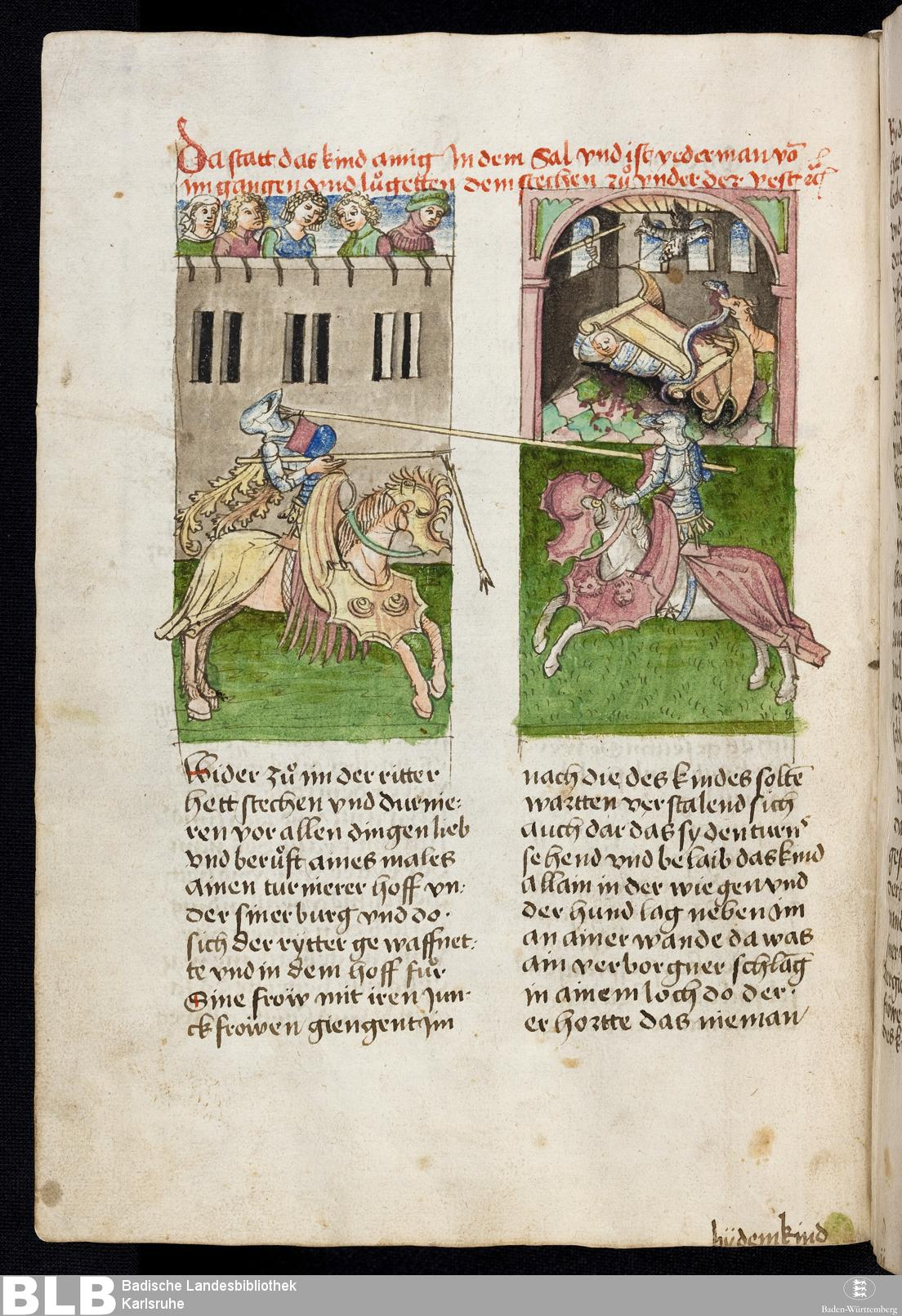 Gesta Romanorum - Donaueschingen 145, a manuscript from Upper Swabia in Germany from circa 1452.